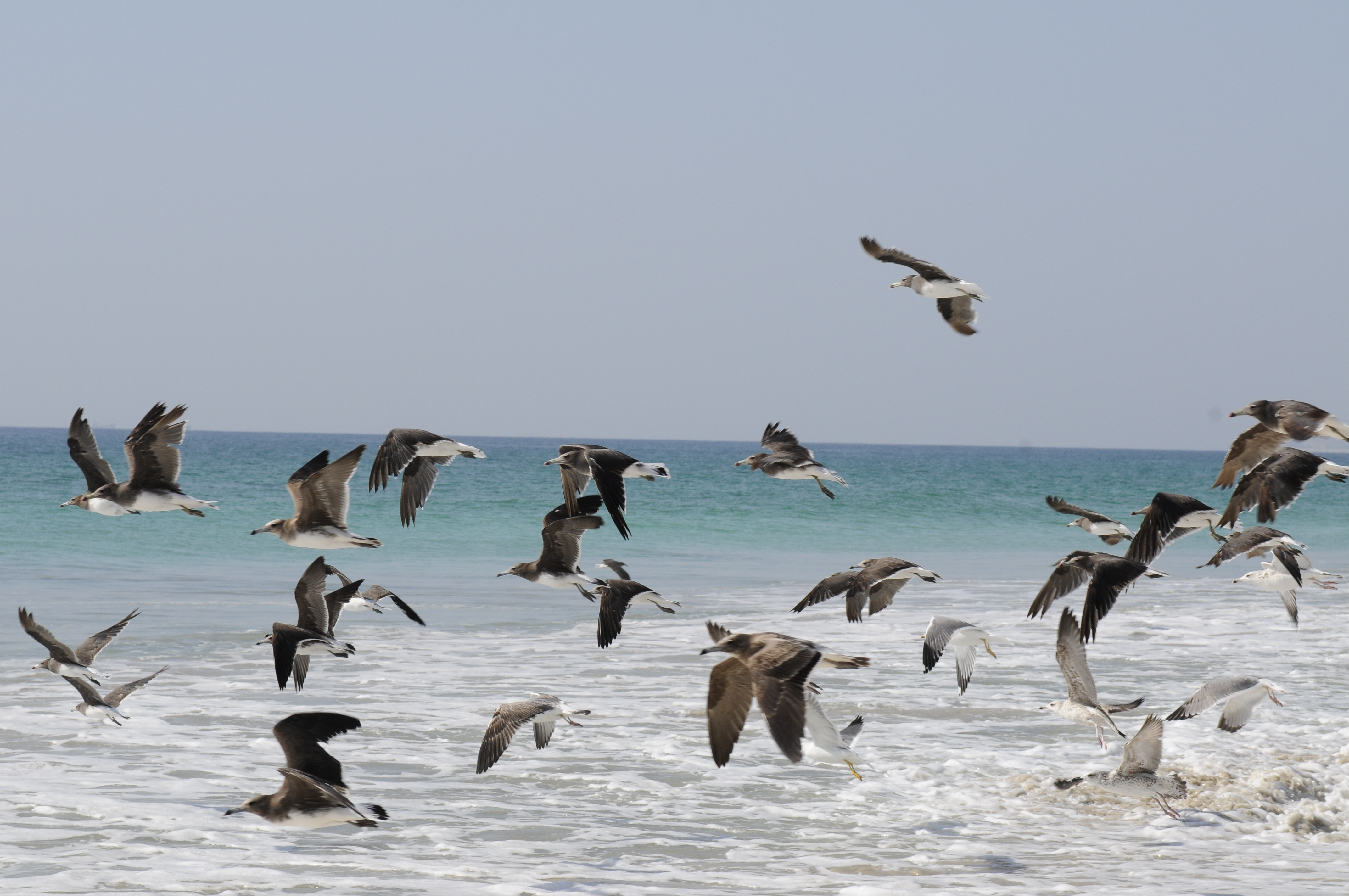 Identification by Benutzer:Accipiter